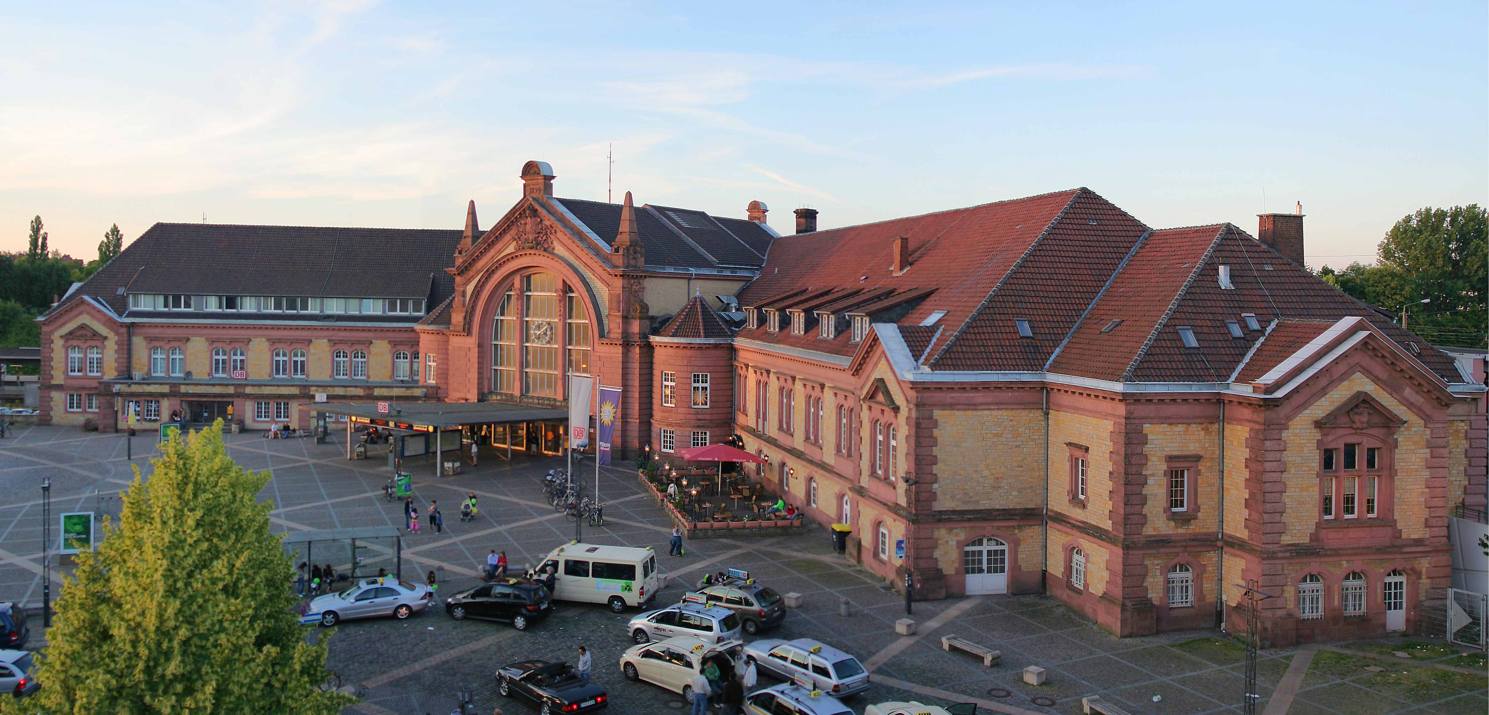 A panoramic of the central station of Osnabrück, Germany. This image is stitched from five single shots using PTGui. NOTE: This image is a panorama consisting of multiple frames that were merged or stitched in software. As a result, this image necessarily underwent some form of digital manipulation. These manipulations may include blending, blurring, cloning, and colour and perspective adjustments. As a result of these adjustments, the image content may be slightly different from reality at the points where multiple images were combined. This manipulation is often required due to lens, perspective, and parallax distortions.